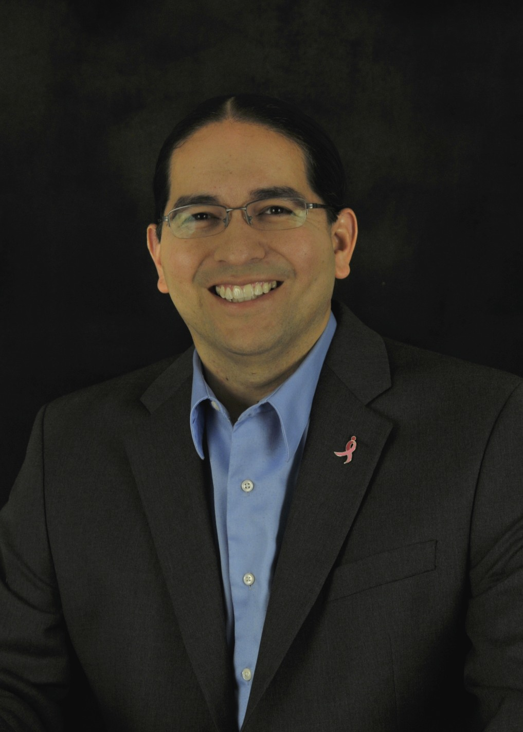 Derek J. Bailey running for US Congress in Michigan's 1st Congressional District